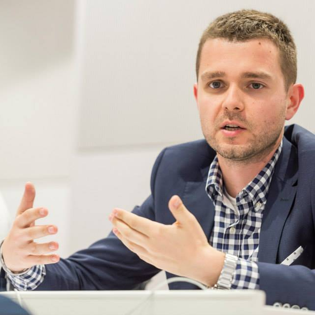 S